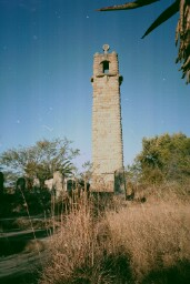 James Stewart monument on Somgxata hill above the University of Ford Hare in the town of Alice, Eastern Cape, South Africa